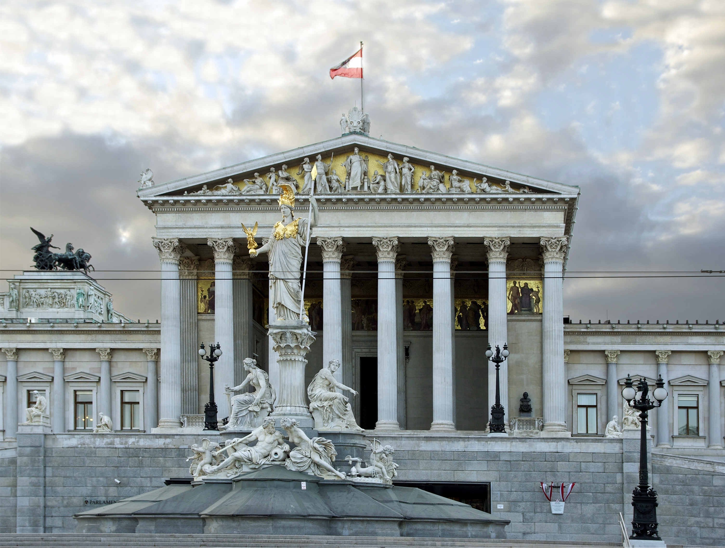 Detail of the facade of the austrian House of Parliament, with the statue of Athena-Pallas in front, Vienna, Austria.